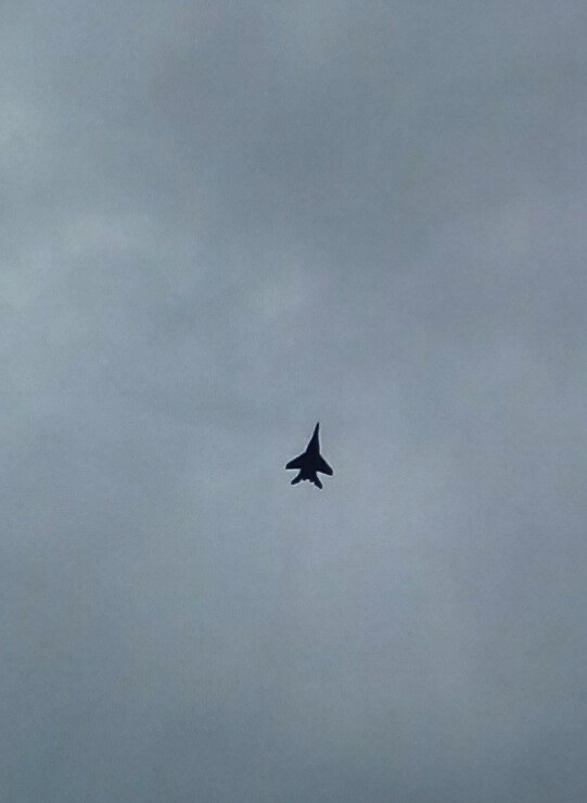 MiG-29 based at Adampur air base.